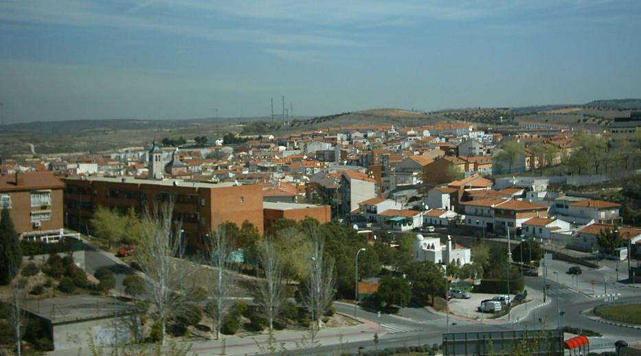 Arganda of the King Skyline